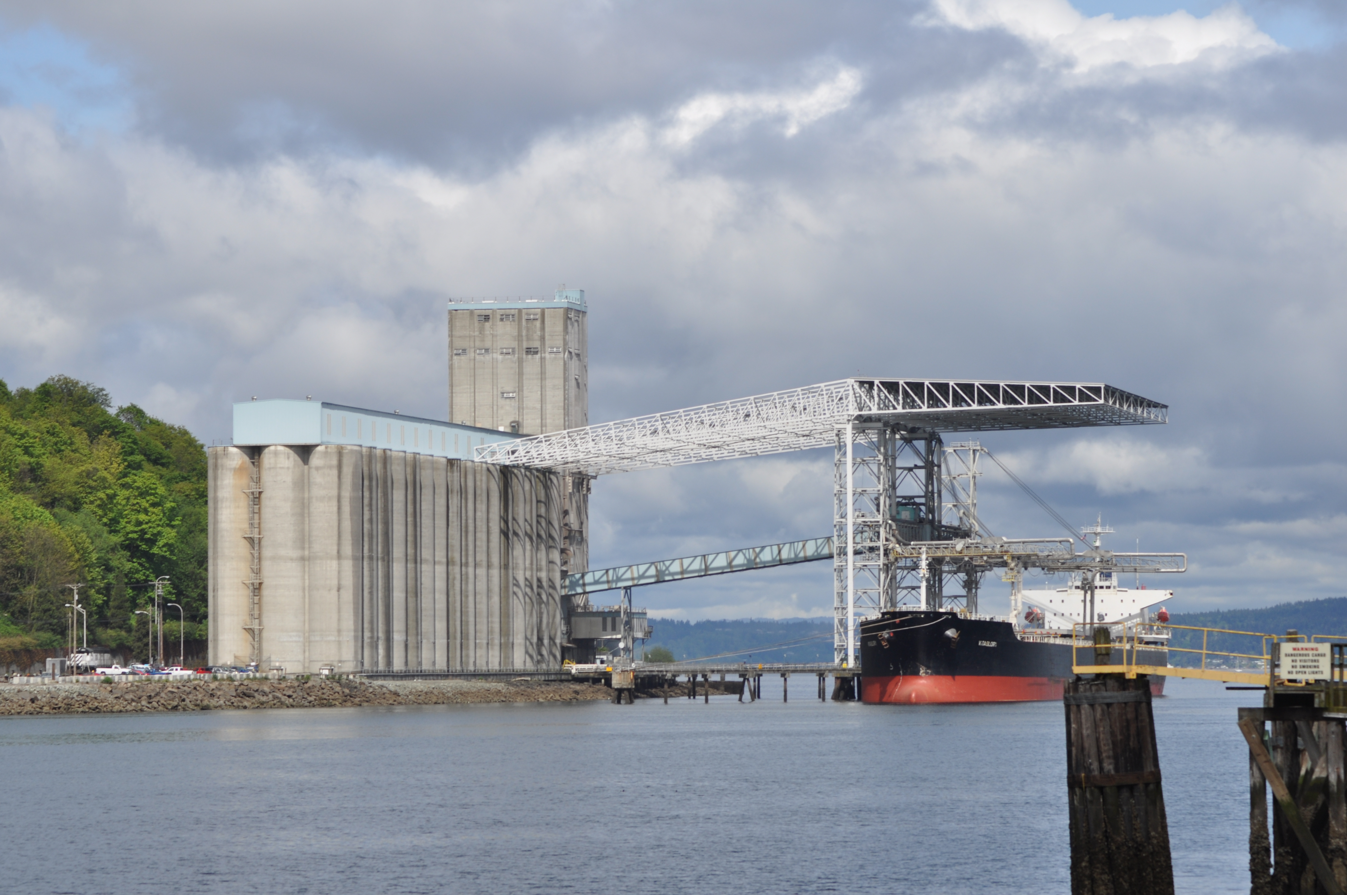 Grain terminal, Tacoma, Washington, seen from across the Thea Foss Waterway.